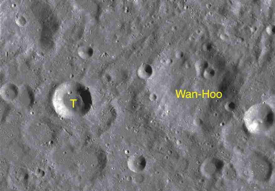 Part of the chart LAC-88 used for the presentation.